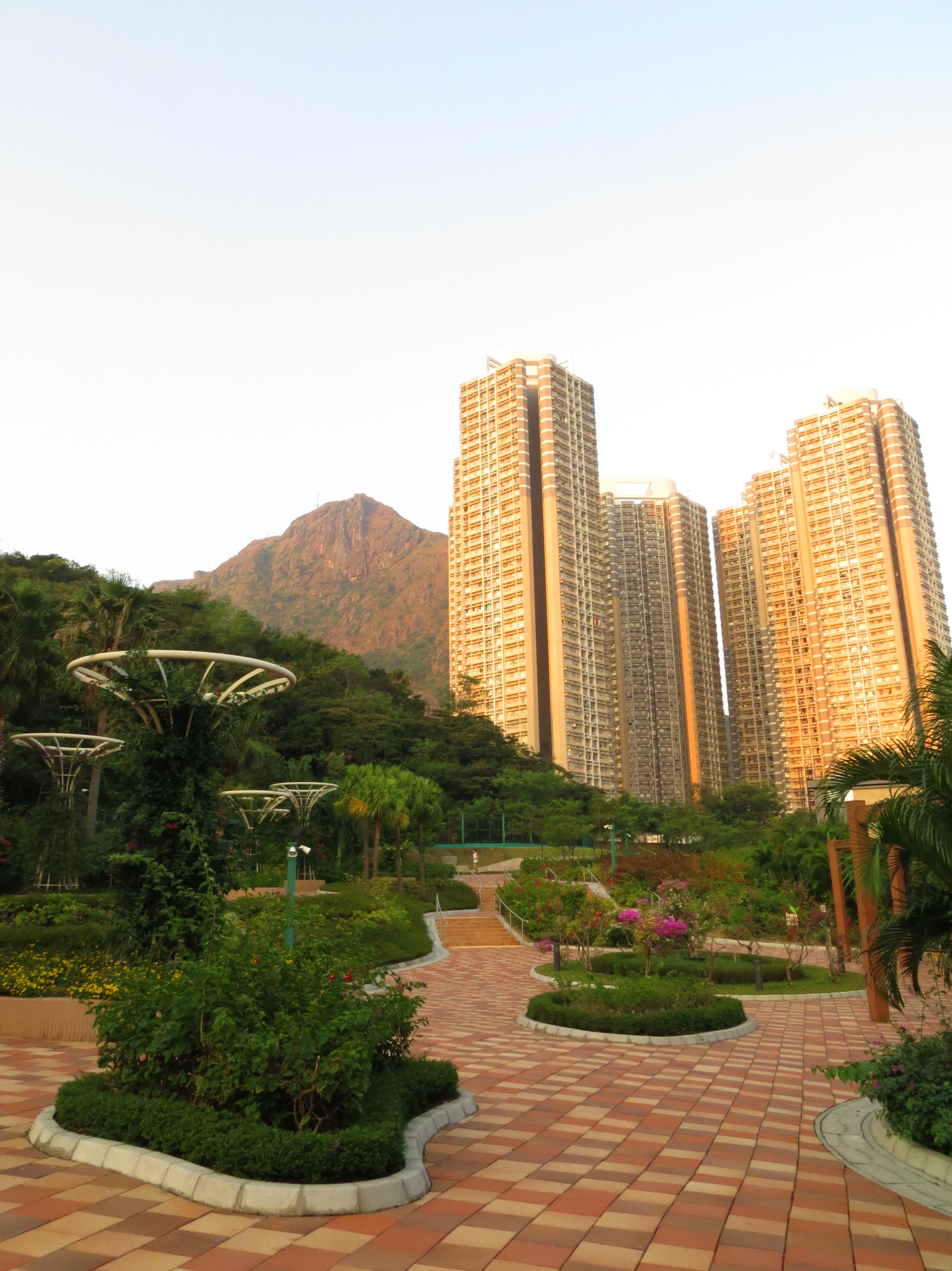 Bougainvillea Garden in the Jordan Valley Park, Kwun Tong, Kowloon, Hong Kong. The buildings in the far background are Shun Lee Disciplined Services Quarter.